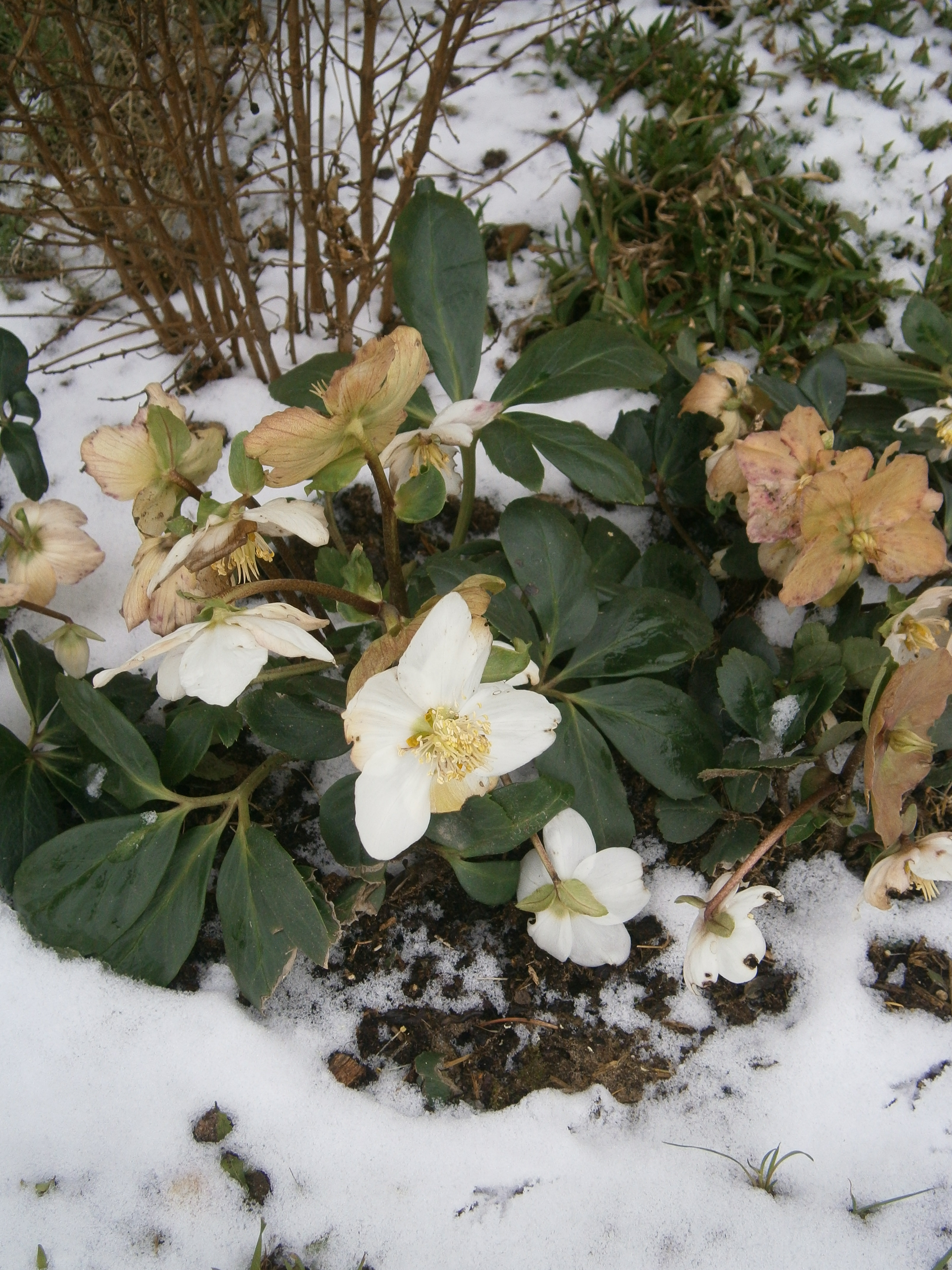 Helleborus niger in snow